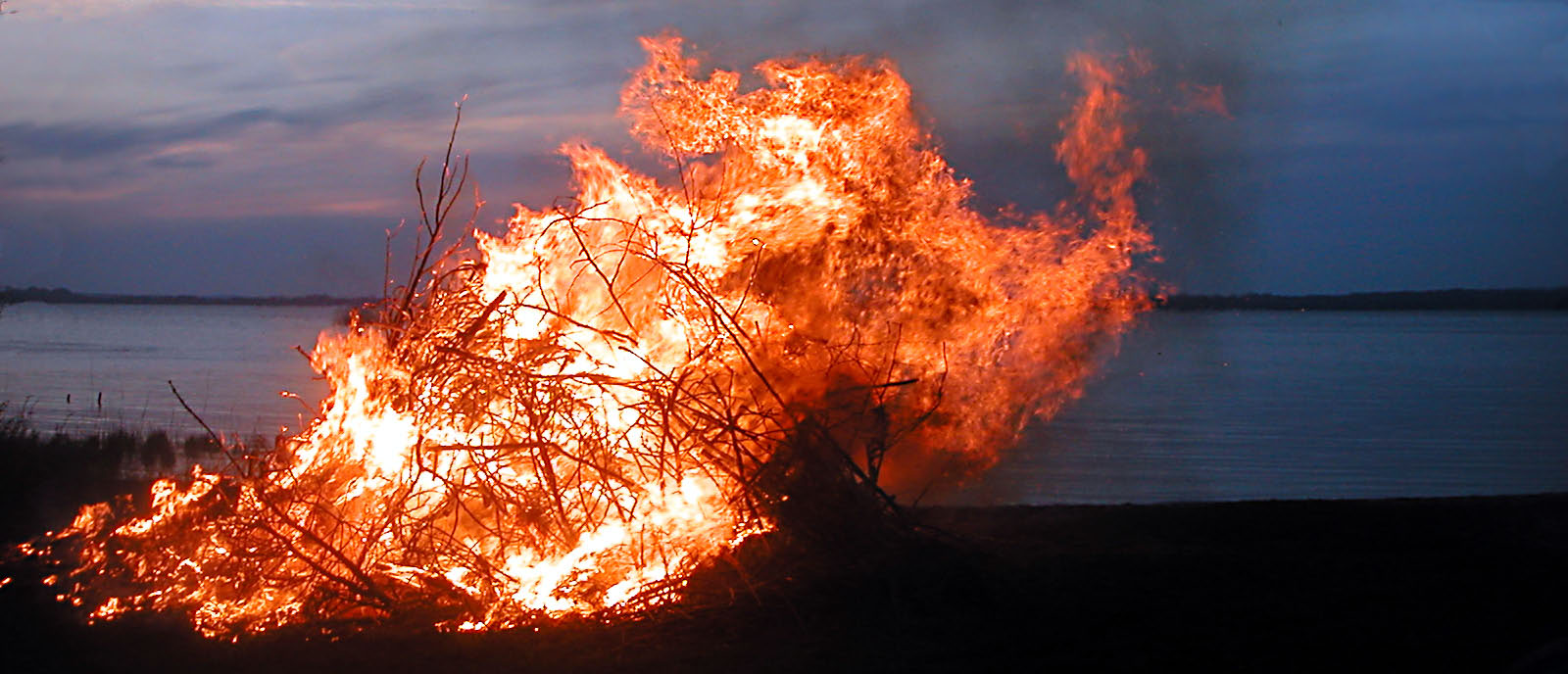 bonfire, Walpurgis Night, near lake Ringsjö, Sweden